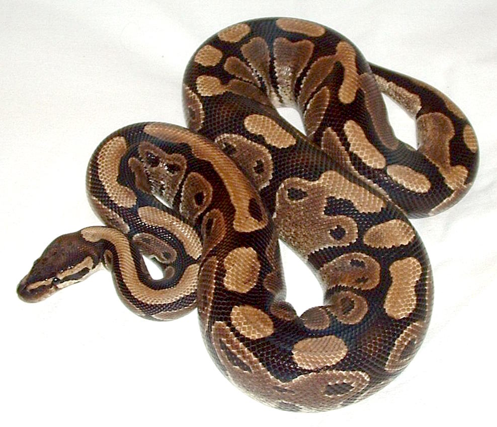 My pet ball python - normal phase, probably an import (rescue)